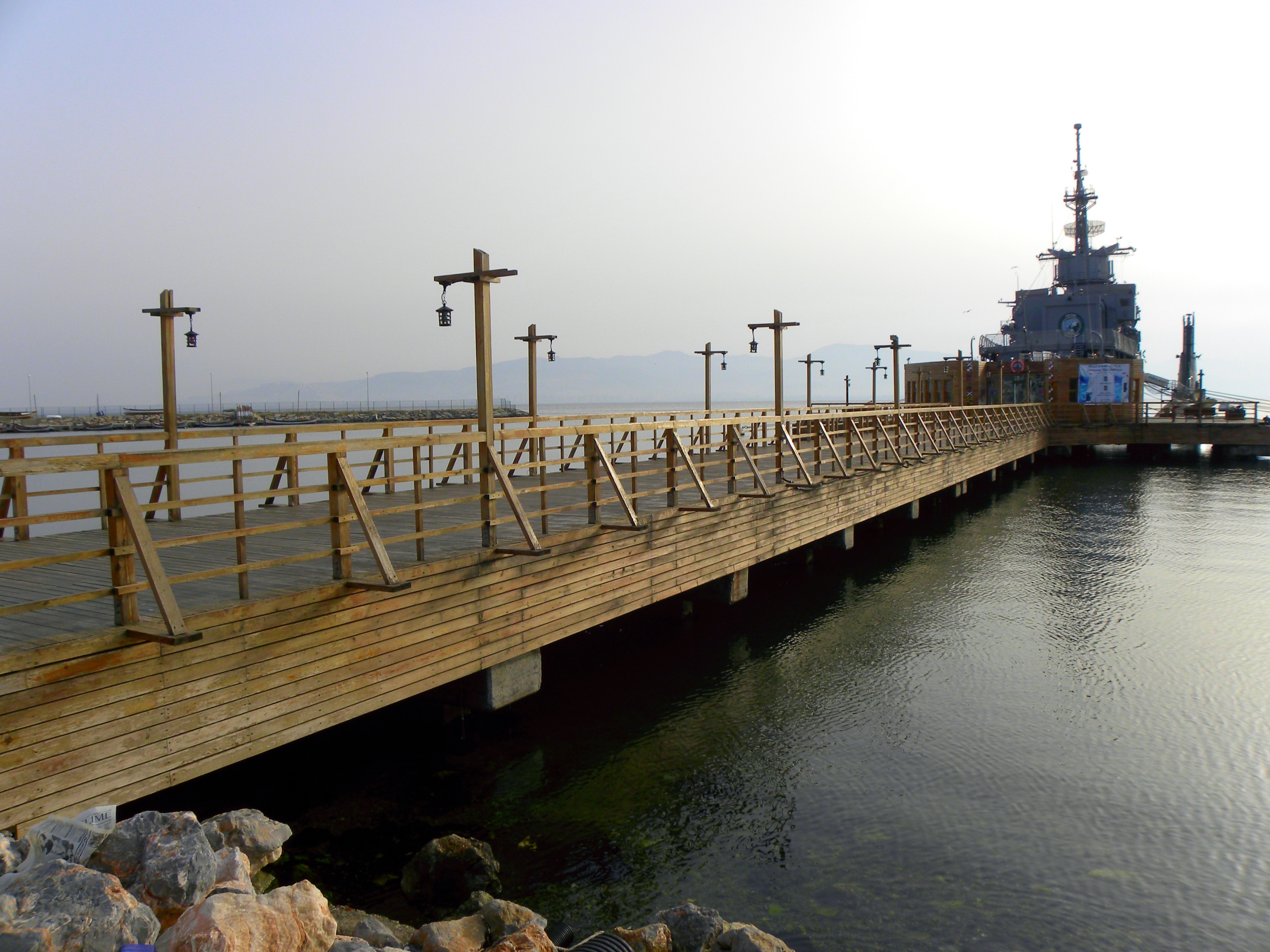 The pier of the İzmir - İnciraltı museum ships. TCG Ege (F-256) & TCG Pirireis (S-343)